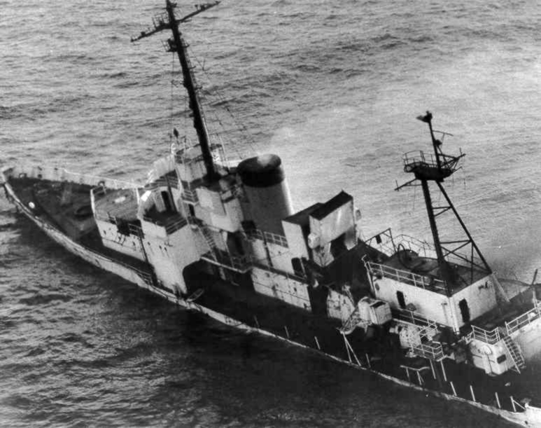 USCGC Cambell (WPG-32) sinking in the Pacific following successful harpoon missile test.